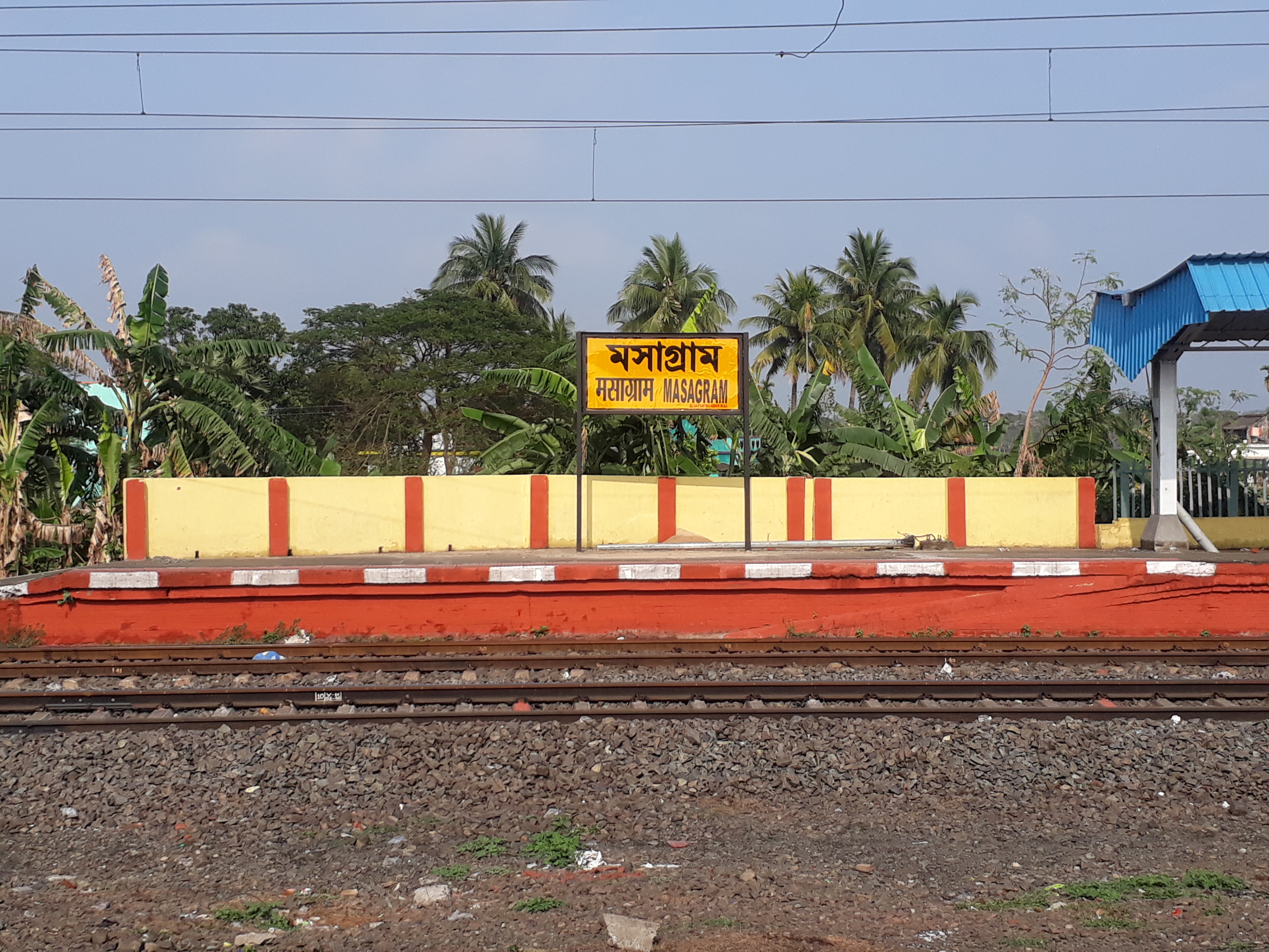 Masagram Junction railway station on Howrah Bardhaman cord line in Purba Bardhaman distrct